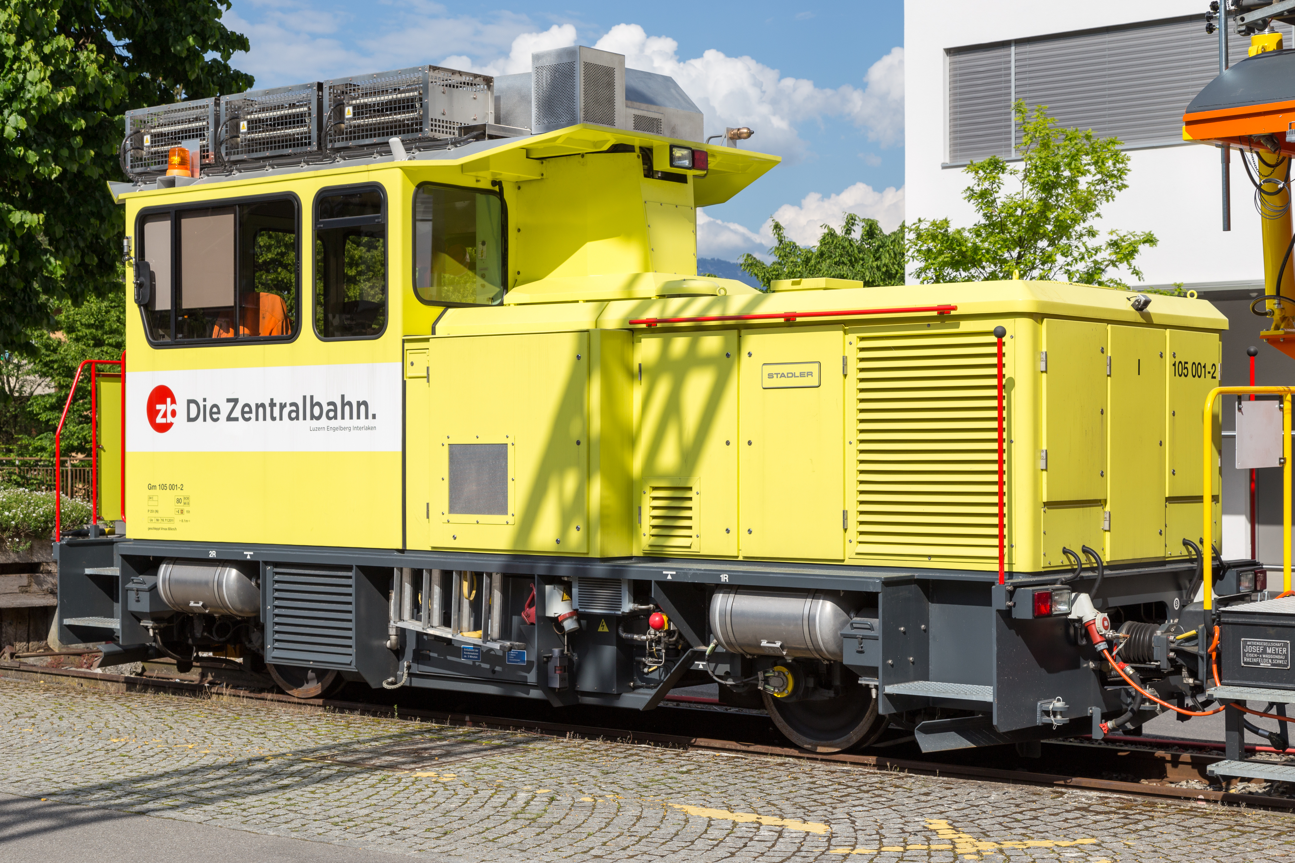 Narrow gauge shunting locomotive Gm 105 001-2 of Zentralbahn, Switzerland